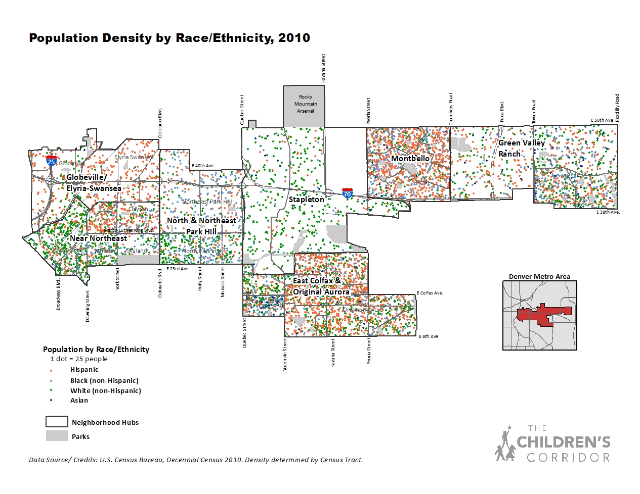 This map allows you to quickly glimpse at an area and see its racial/ethnic makeup and population density. Each dot on this map represents 25 people, and dots are placed randomly within each Census Tract. Dots are color-coded by race/ethnicity. Areas with more dots are more densely populated, and areas with fewer dots are less densely populated. For example, looking the five neighborhoods in Near Northeast, you can see Five Points, Cole and Whittier are more densely populated than Clayton and Skyland. And while Cole has a predominantly Hispanic population, Whittier is more heavily African-American and white. This map was made using 2010 Decennial Census data from the U.S. Census Bureau. For more visualization and analysis of Census data, visit View more maps of the Children’s Corridor